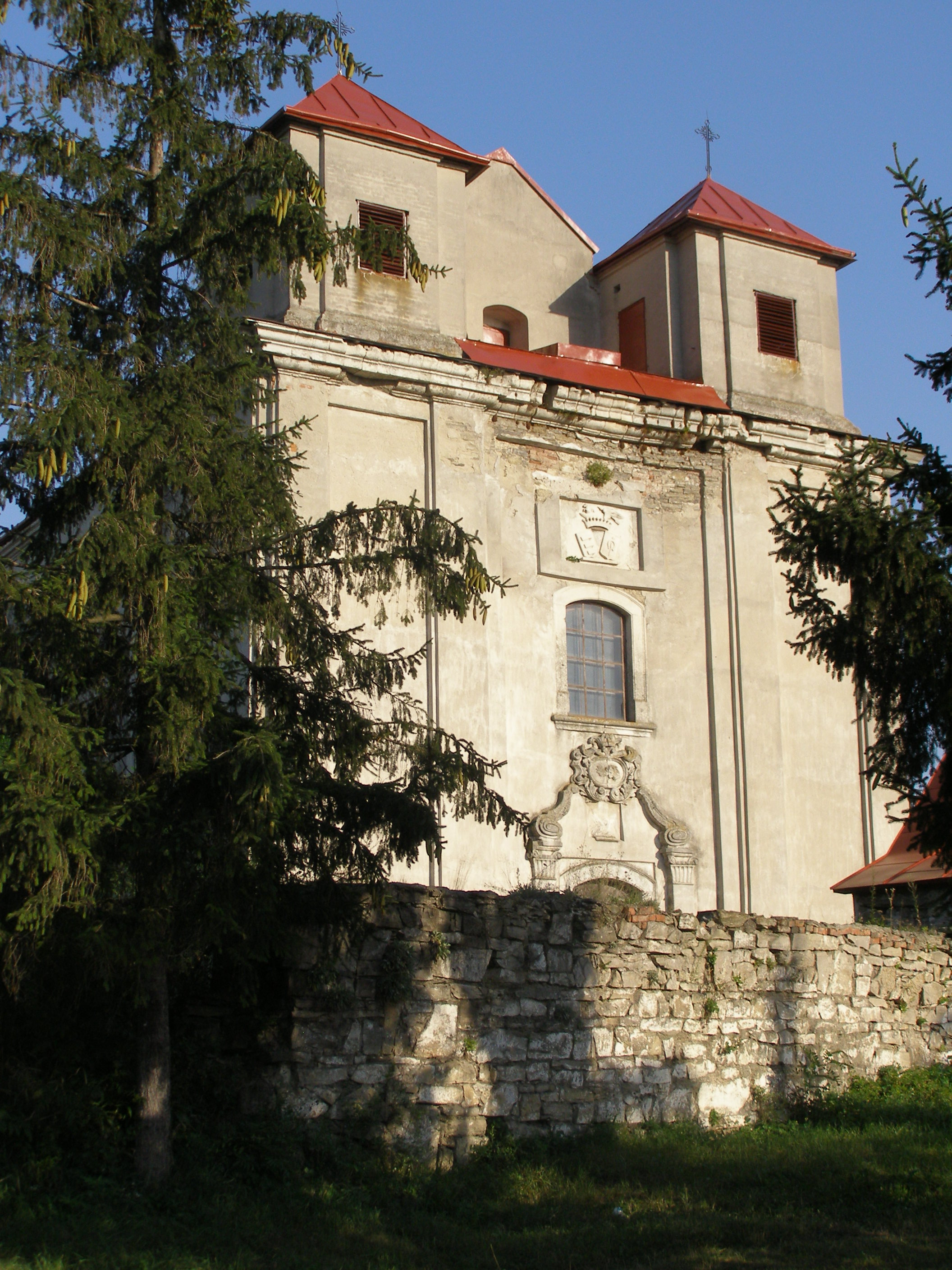 Armenian Church in Zhvanets, Kamianets-Podilskyi Rayon, Khmelnytskyi Oblast, Ukraine